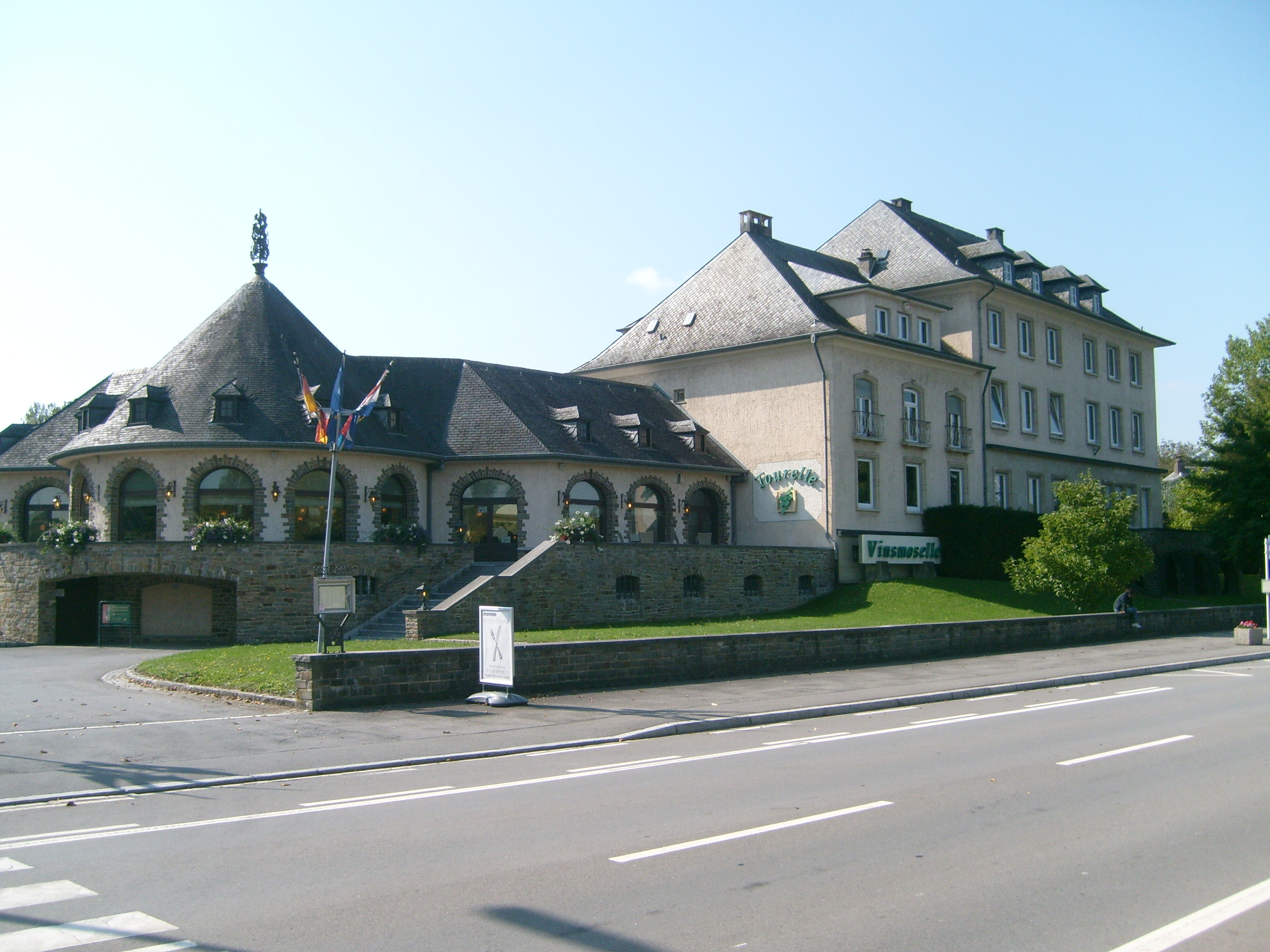 Castle of Stadtbredimus, Luxembourg. View from main road.